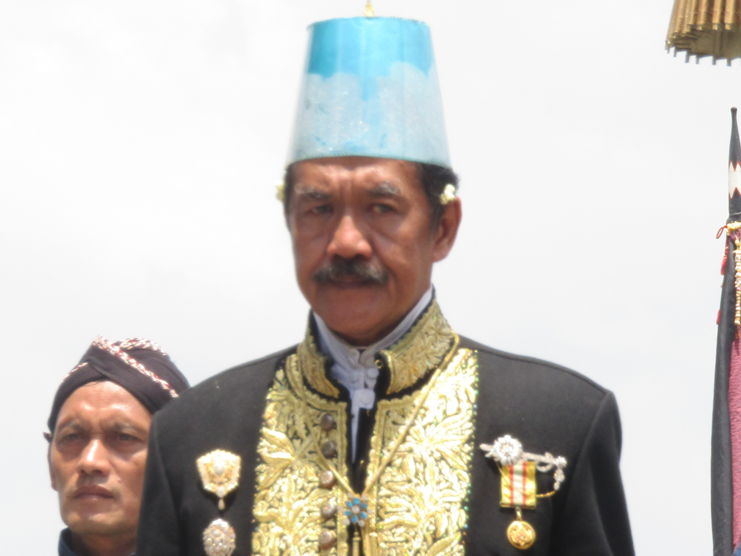 Yudhaningrat as a Commander of Royal Troops of Yogyakarta